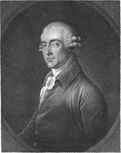 Portrait (Richard Owen Cambridge) in: R. O. Cambridge: The Works of Richard Owen Cambridge, esq. : including several pieces never before published. Luke Hansard, London 1803.